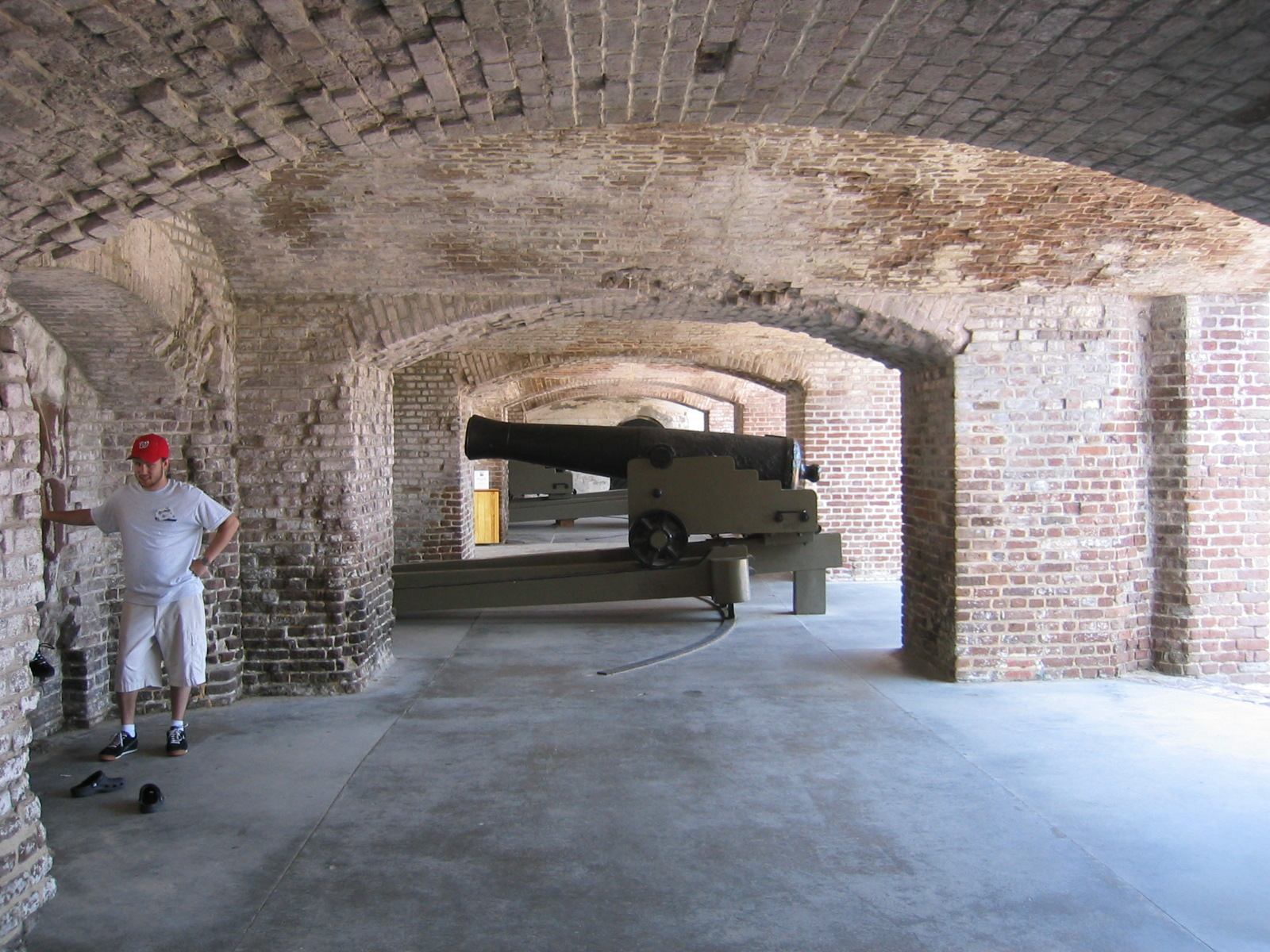 Cannon at Fort Sumter, Charleston, South Carolina.